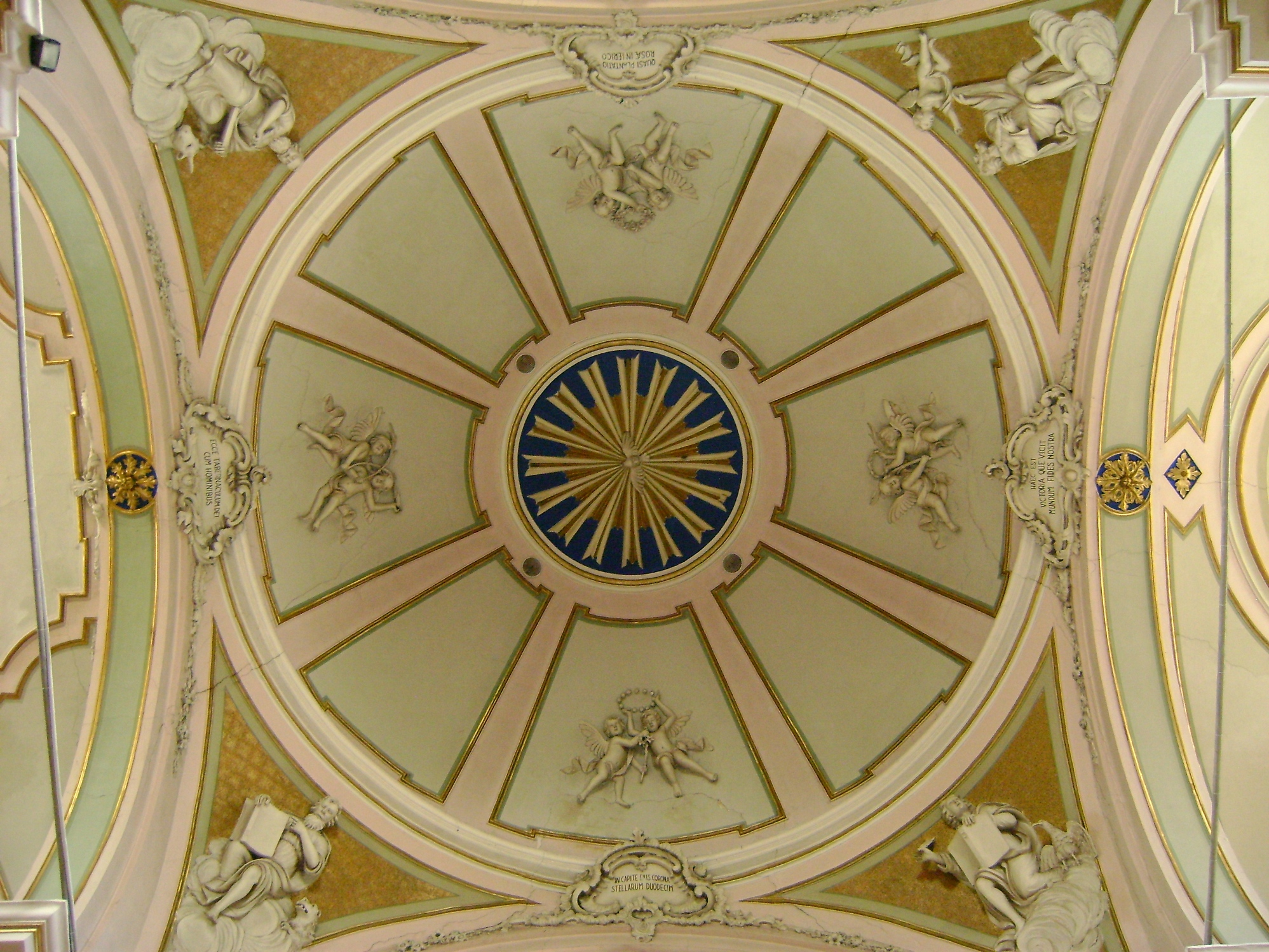 The dome of the church of Santa Vittoria, Tornareccio, province of Chieti, Abruzzo